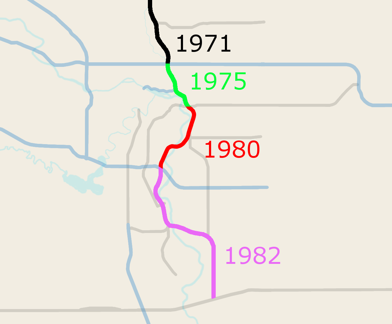 Deerfoot Trail segments - created with OpenStreetMap